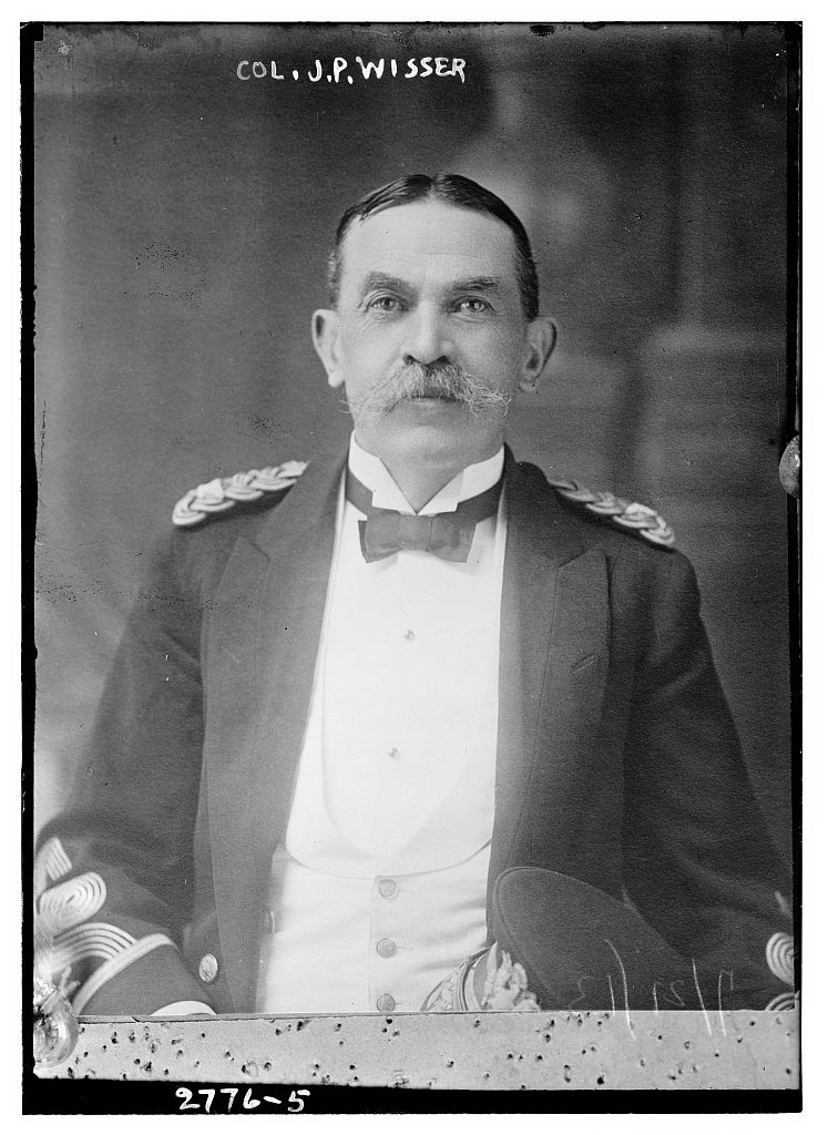 Bain News Service, publisher. Col. J. P. Wisser circa 1910-1913 [no date recorded on caption card] 1 negative : glass ; 5 x 7 in. or smaller. Notes: Title from unverified data provided by the Bain News Service on the negatives or caption cards. Forms part of: George Grantham Bain Collection (Library of Congress). Format: Glass negatives. Repository: Library of Congress, Prints and Photographs Division, Washington, D.C. 20540 USA, General information about the Bain Collection is available at Persistent URL: Call Number: LC-B2- 2776-5